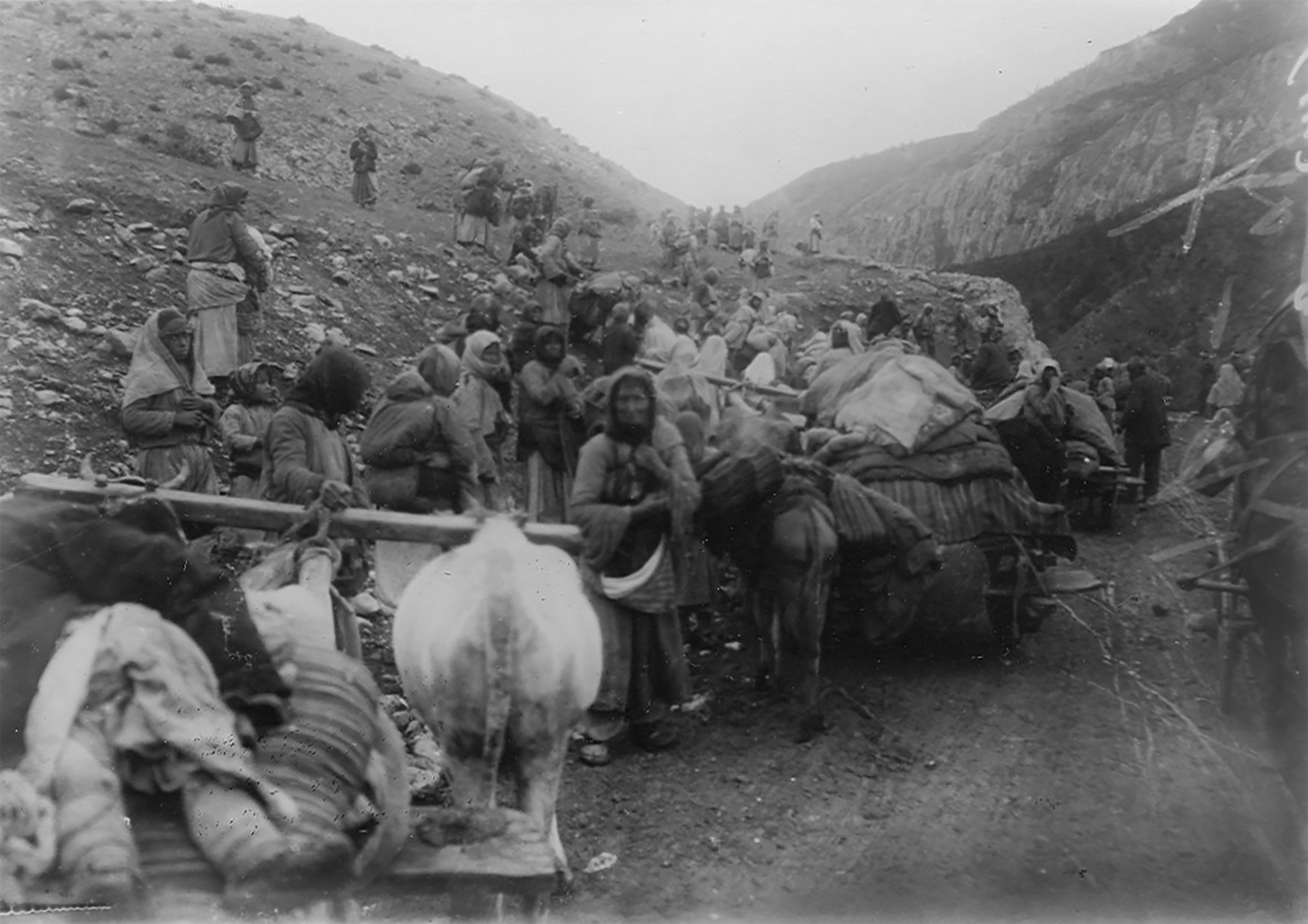 Armenian deportations in Erzurum. Pictures taken by Viktor Pietschmann